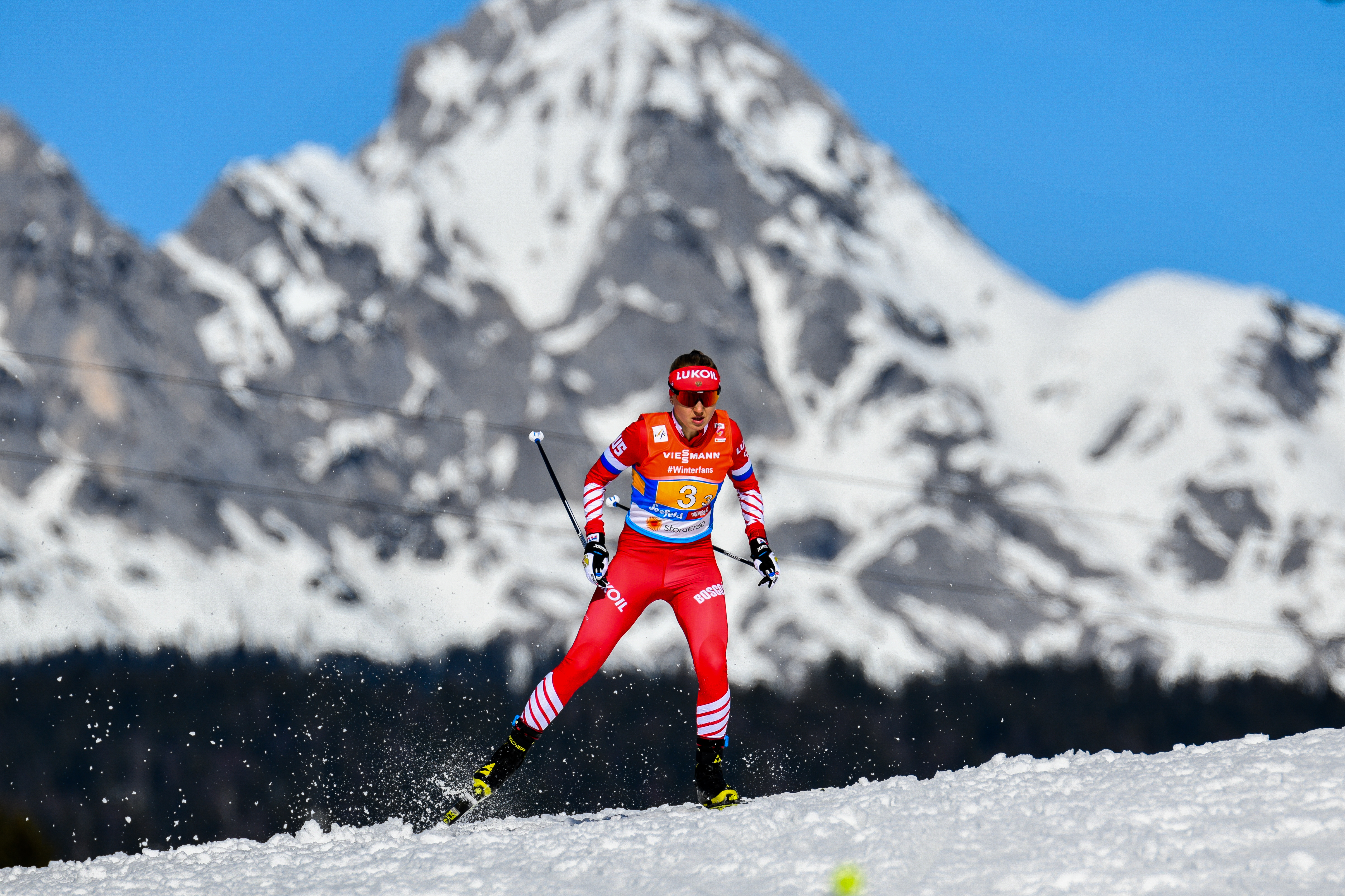 FIS Nordic World Ski Championships Seefeld 2019 - Ladies 4x5km Relay Classic/Free. Picture shows Anna Nechaevskaya (RUS).